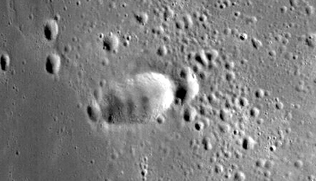 LROC view WAC M119599218ME of Gärtner M (unofficial image, manually stacked